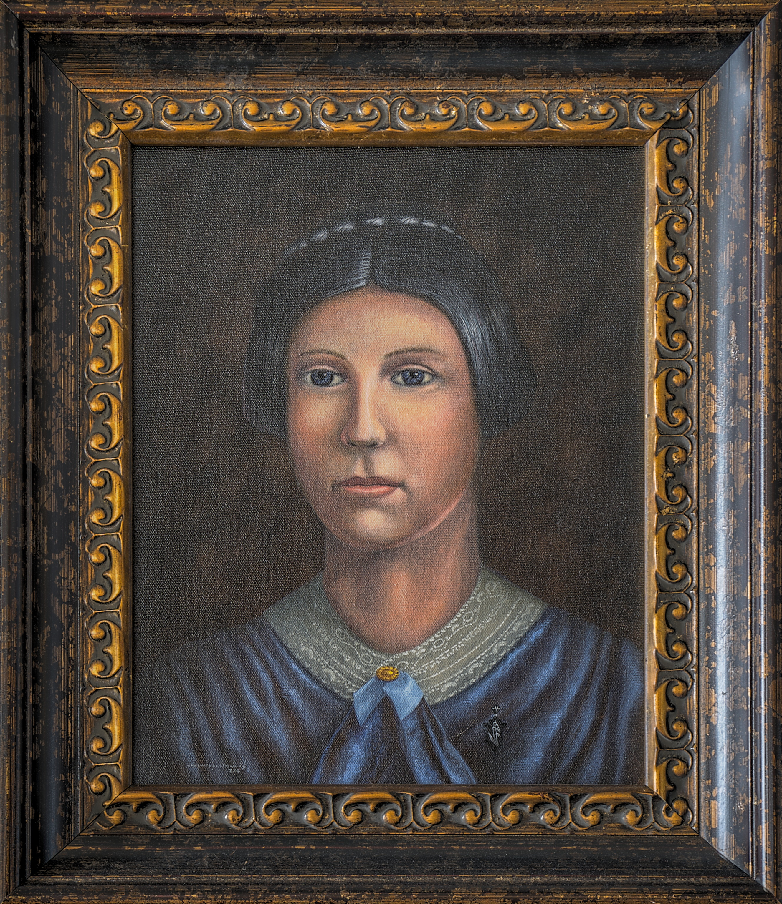 Portrait of Helenor Alter Draper Davisson (1823 - 1876) on display at the World Methodist Museum